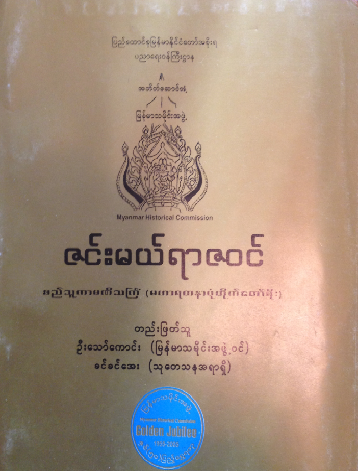 Based on my photograph of a copy of "Zinme Yazawin" (Chiang Mai Chronicle) published in 2006